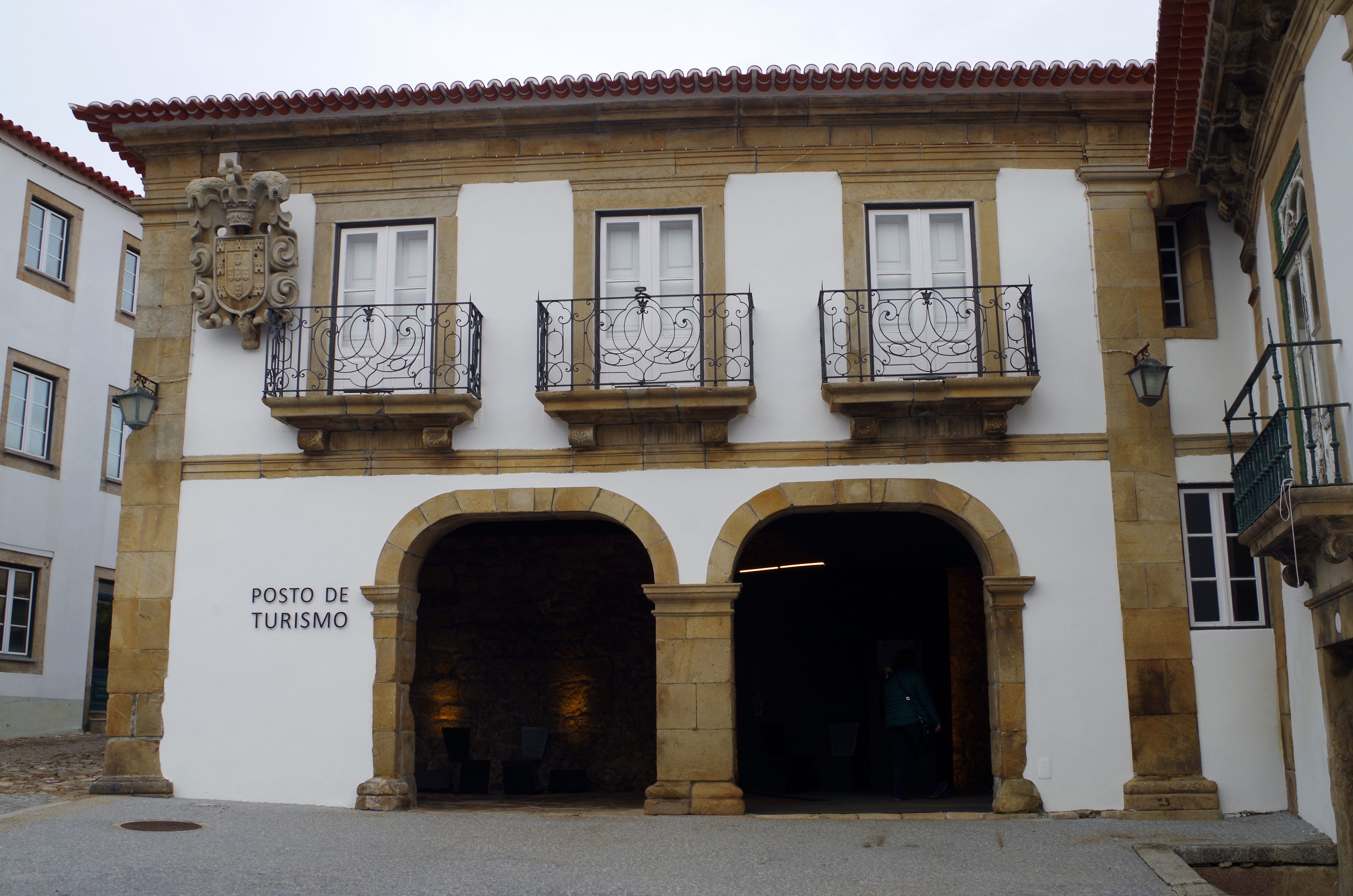 Former town house, municipal museum and tourism office in Pinhel (Guarda, Portugal).